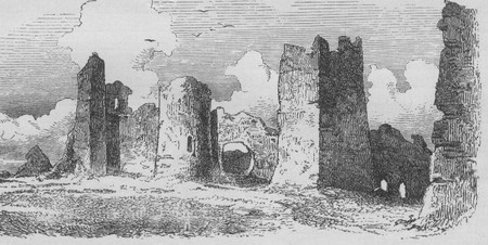 Ruins of Žrnov, a medieval fortress which existed on Avala.